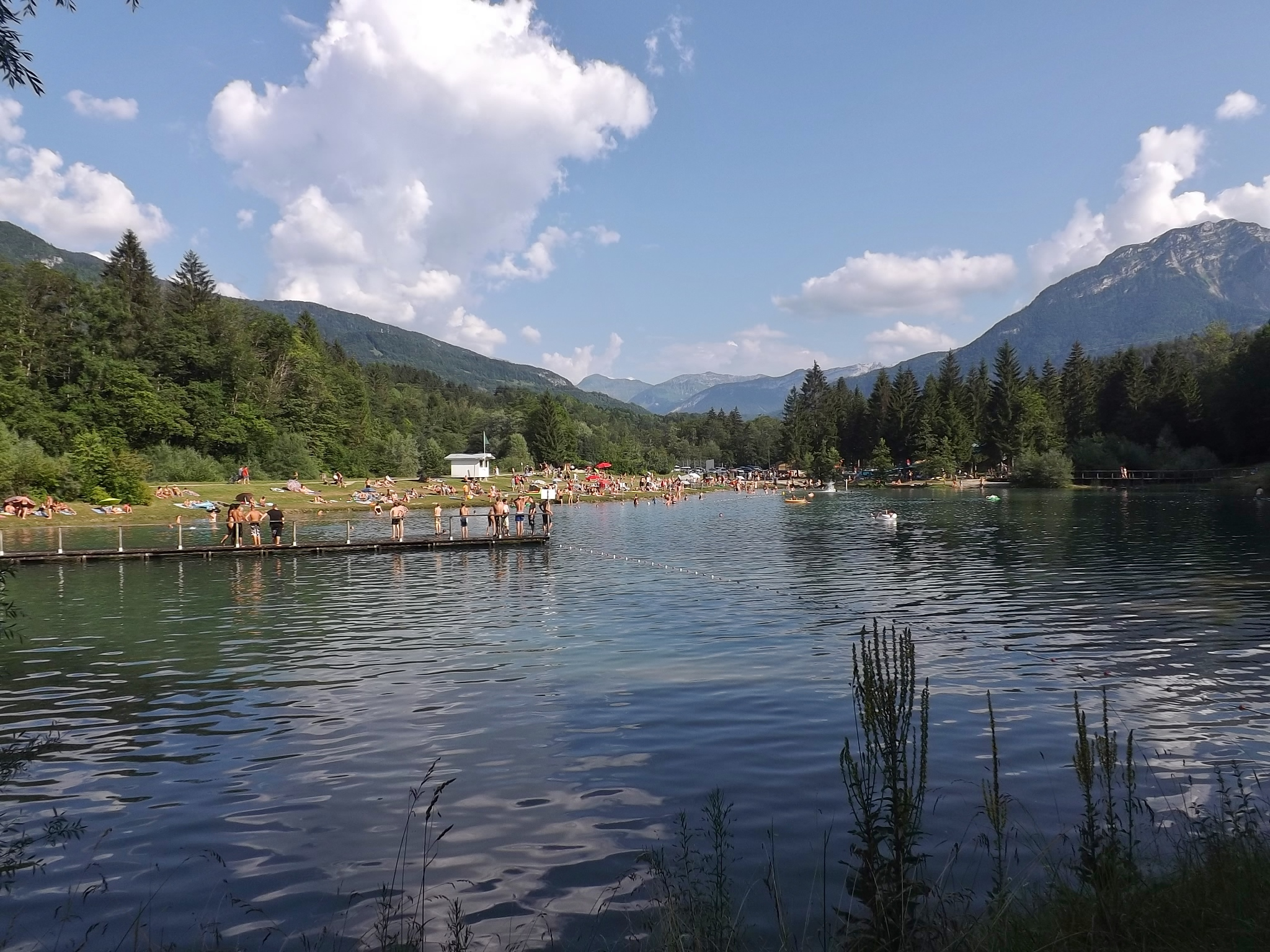 Sight of the nautical leisure base of "Les Îles du Chéran", in Lescheraines in the Bauges mountains of Savoie, France.